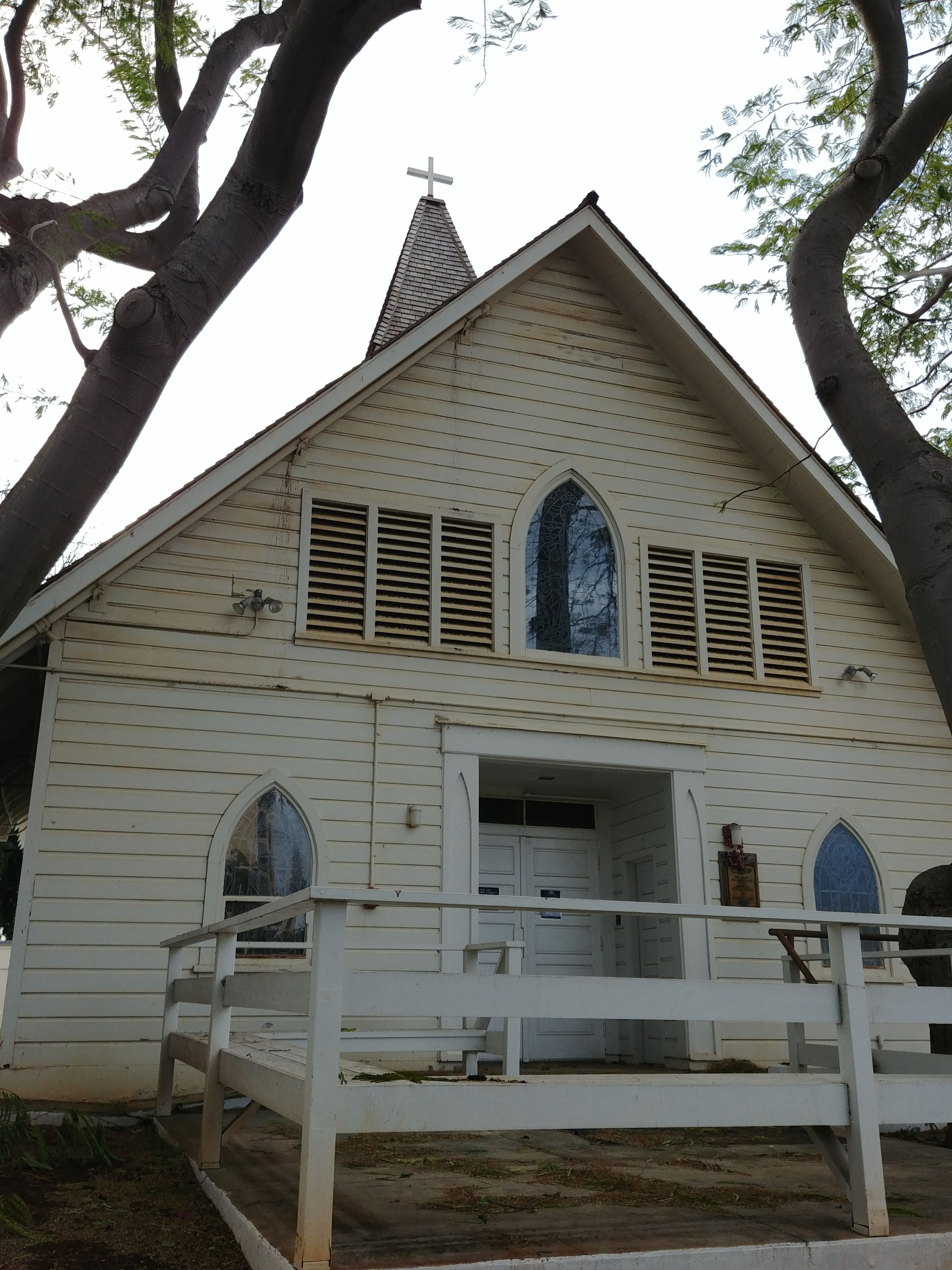 Submarine Memorial Chapel at Pearl Harbor. Shot depicts the building's front entrance and steeple. Stained glass windows can be seen to the left and right of the door, and another above it.